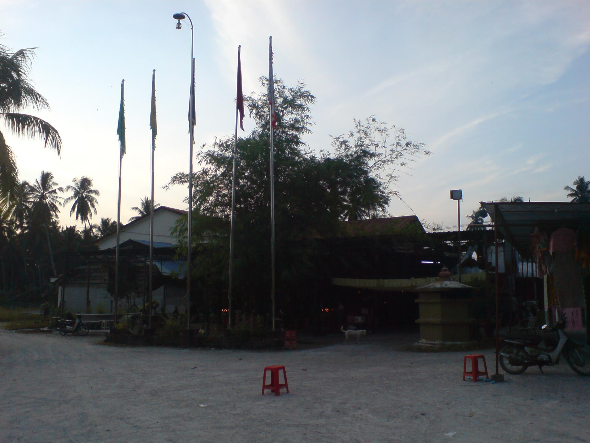 External Yu Wang Hall Temple